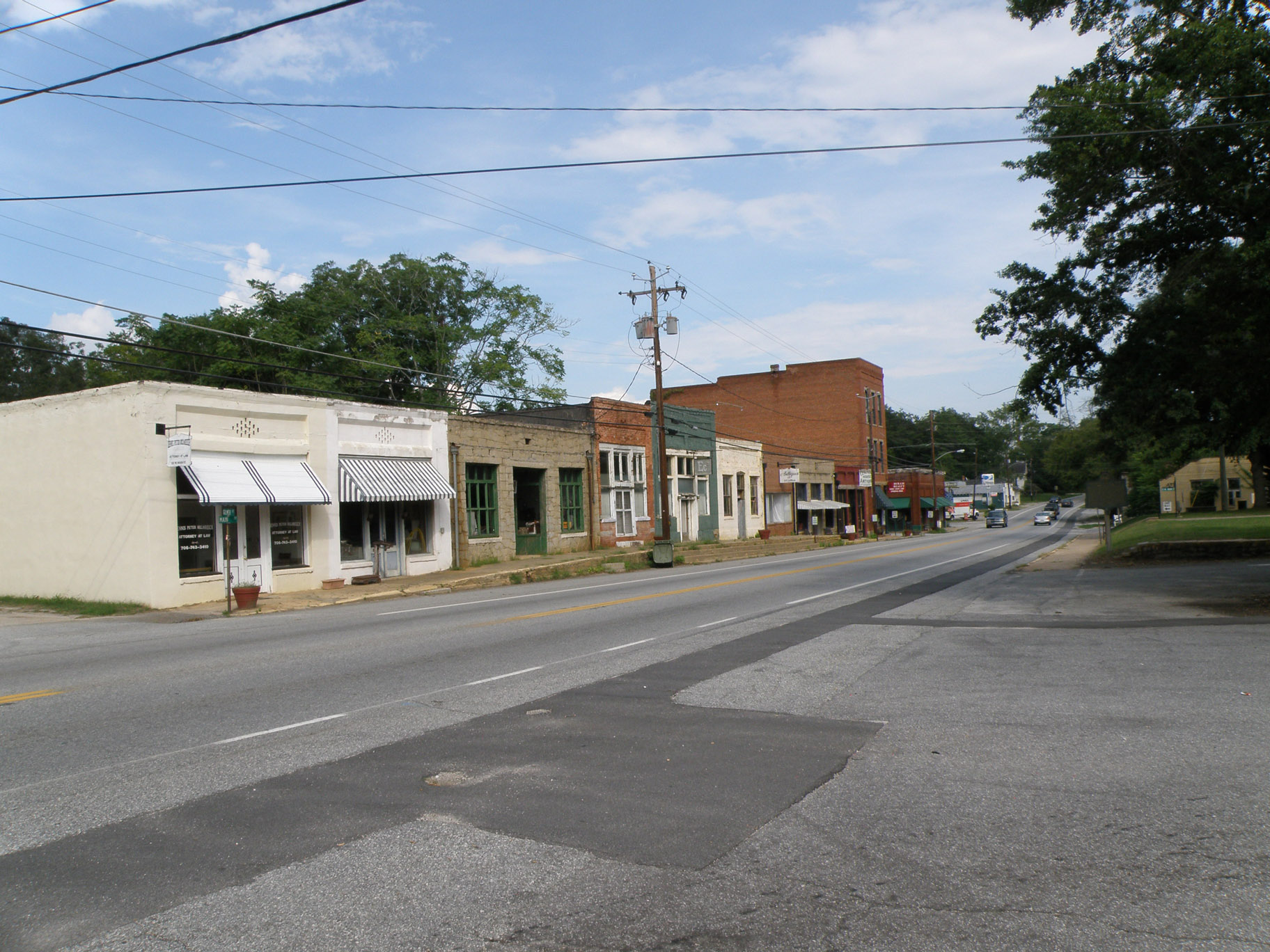 An image of the main street in Lexington, Georgia. This photo was taken standing west of the court house looking across the street towards the right.